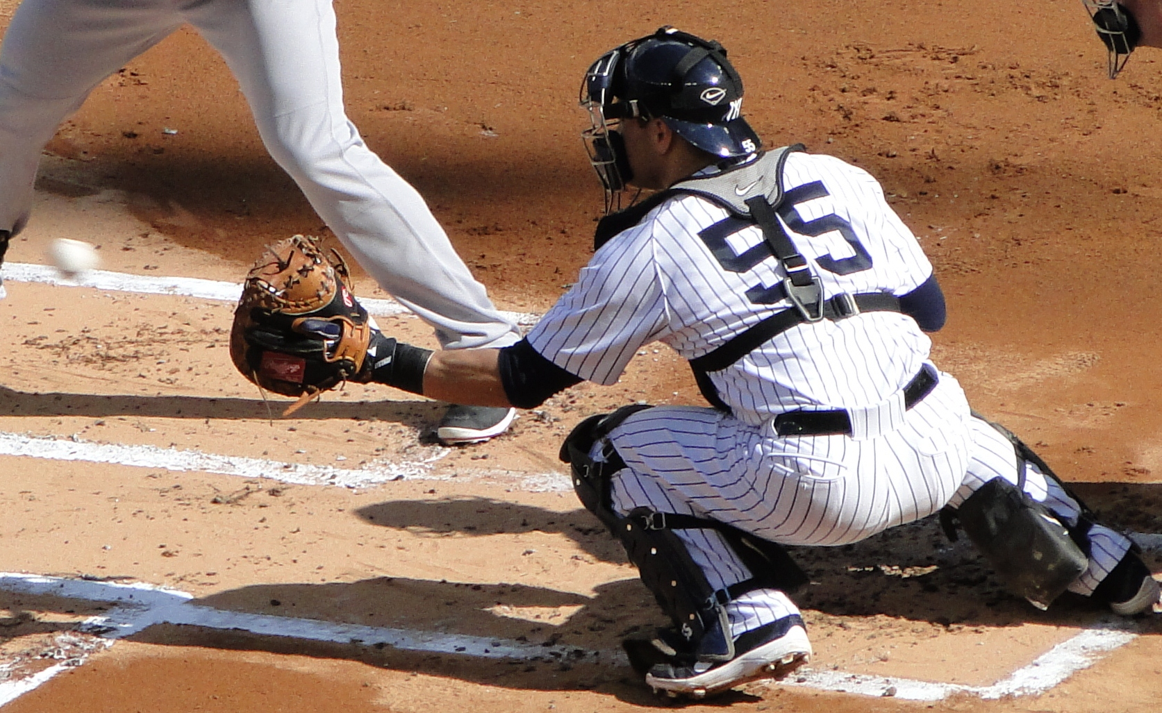 Russell Martin catching in a game against the Boston Red Sox at Yankee Stadium on August 18th, 2012